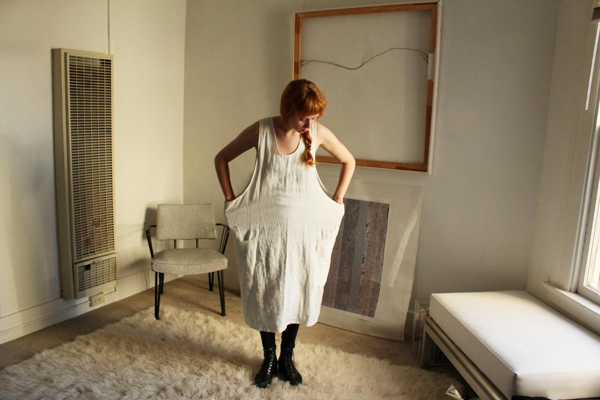 69 Dress Holly Herndon